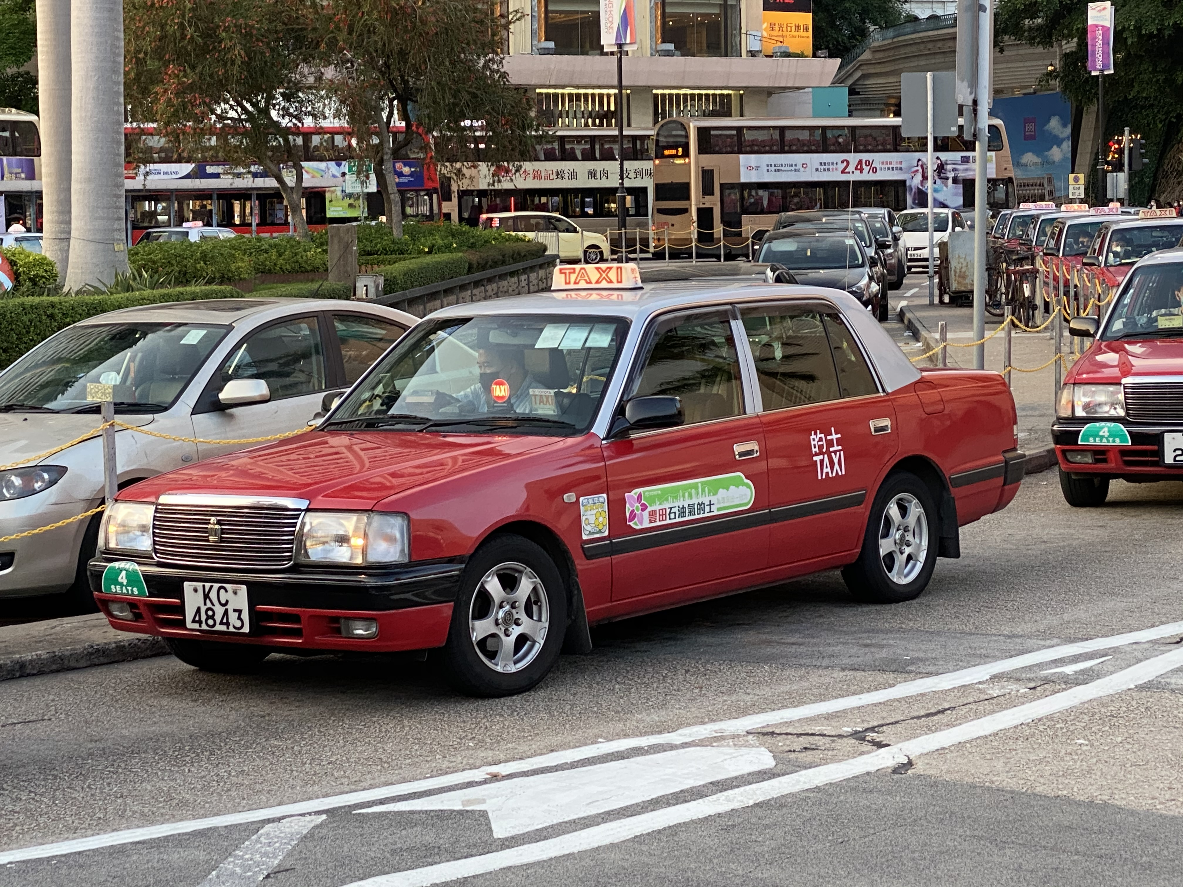 中文（香港）: This photo is taken in Tsim Sha Tsui.